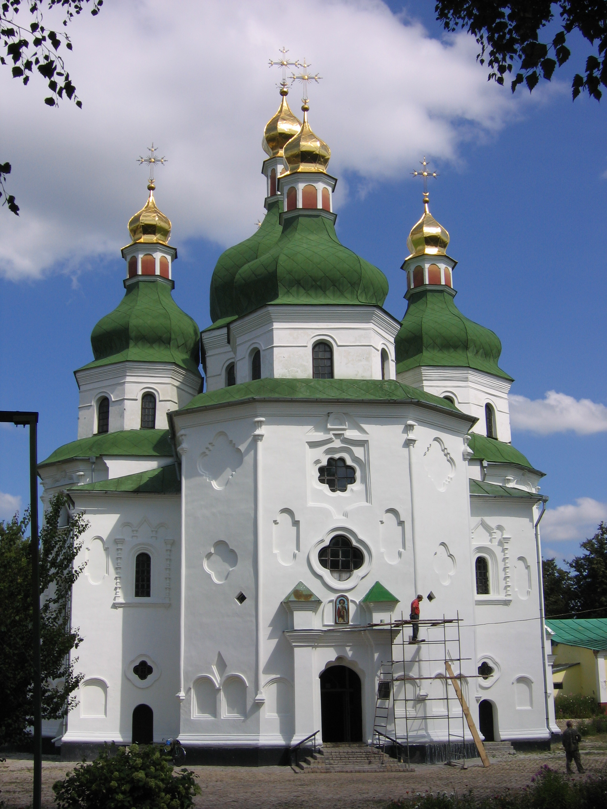 Nizhyn, Ukraine